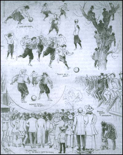 Women's Football